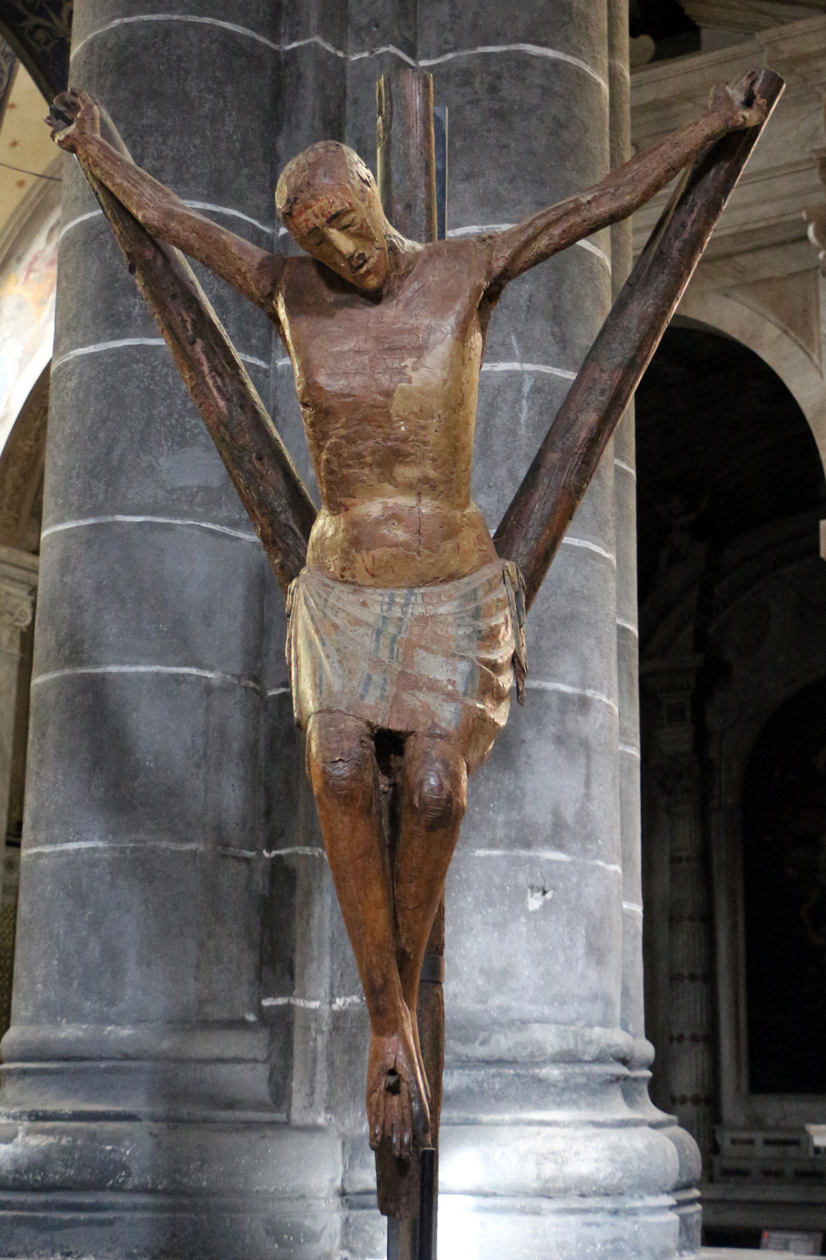 Santa Maria di Castello (Genoa)